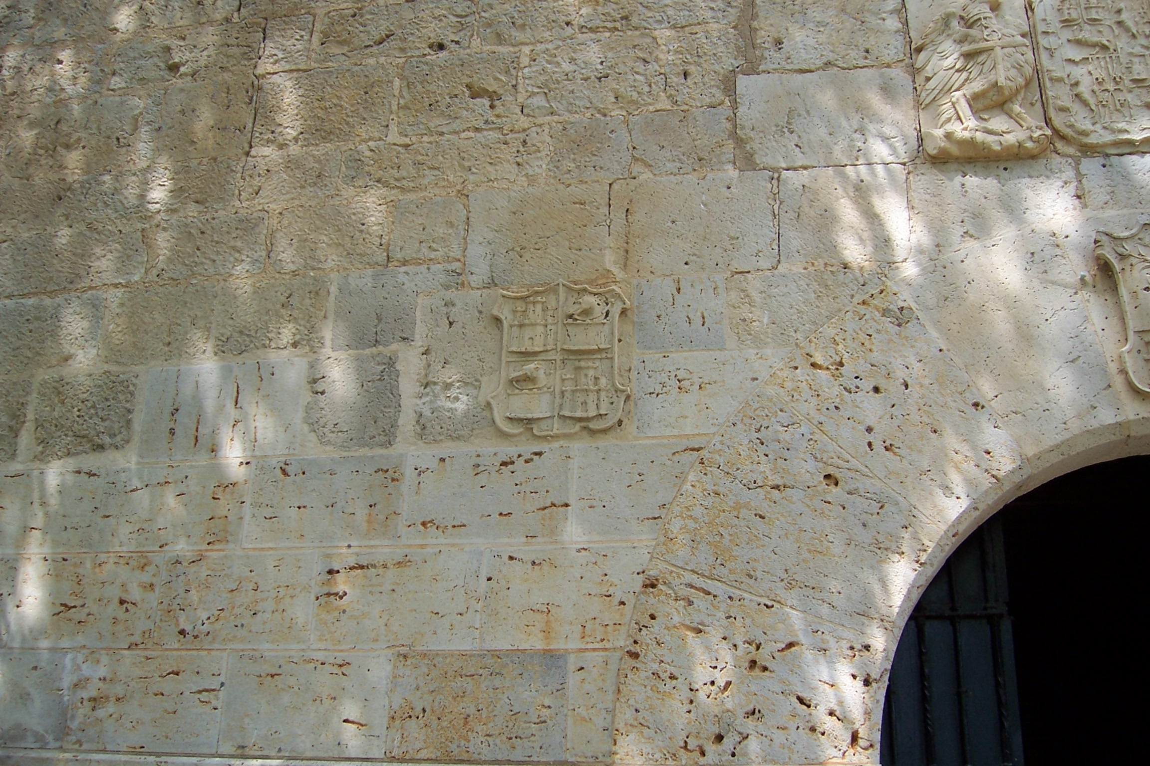 Facade of the hermitage of Castilviejo (Medina de Rioseco in Valladolid, Spain). Coat of arms of Medina de Rioseco.